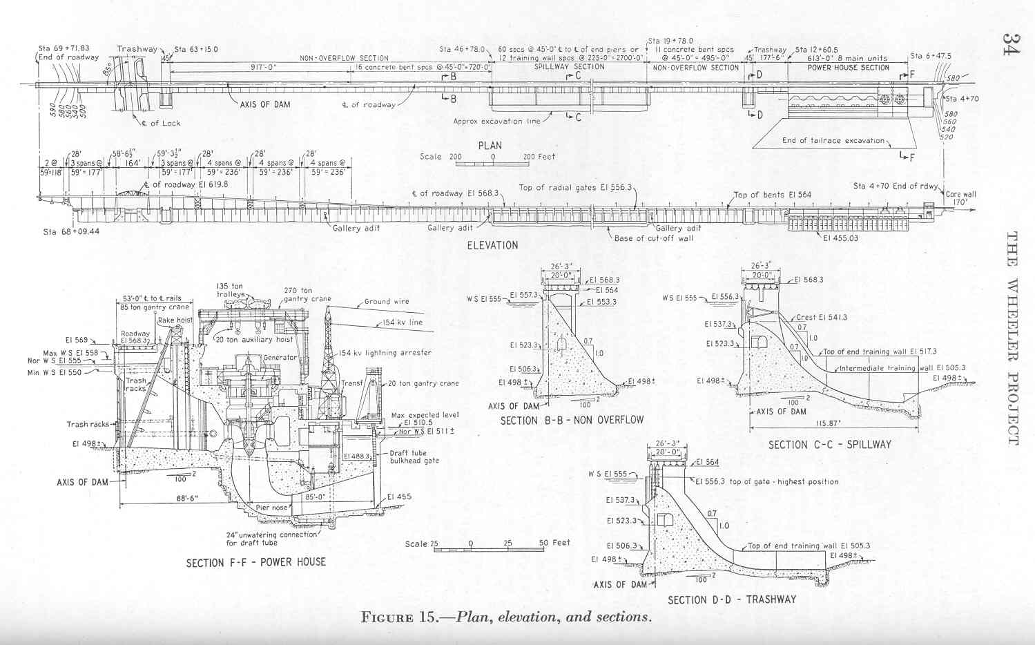 TVA's design plan for Wheeler Dam on the Tennessee River in Lauderdale County in the U.S. state of Alabama. As TVA had little engineering or dam construction experience in 1933, it relied on consultation from the U.S. Army Corps of Engineers and the Bureau of Reclamation for the dam's plan.